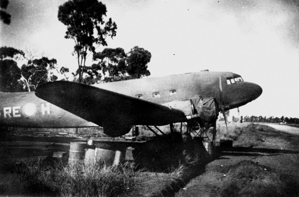 Douglas c47 Dakota aeroplane parked off the runway at Charters Towers airfield, 1943 The RE codes on this aircraft identifies it as belonging to the 36 Squadron, Royal Australian Air Force.